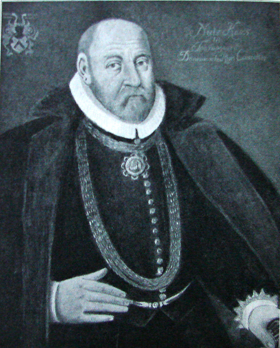 Niels Kaas (1534 - June 29, 1594) was a Danish chancellor.